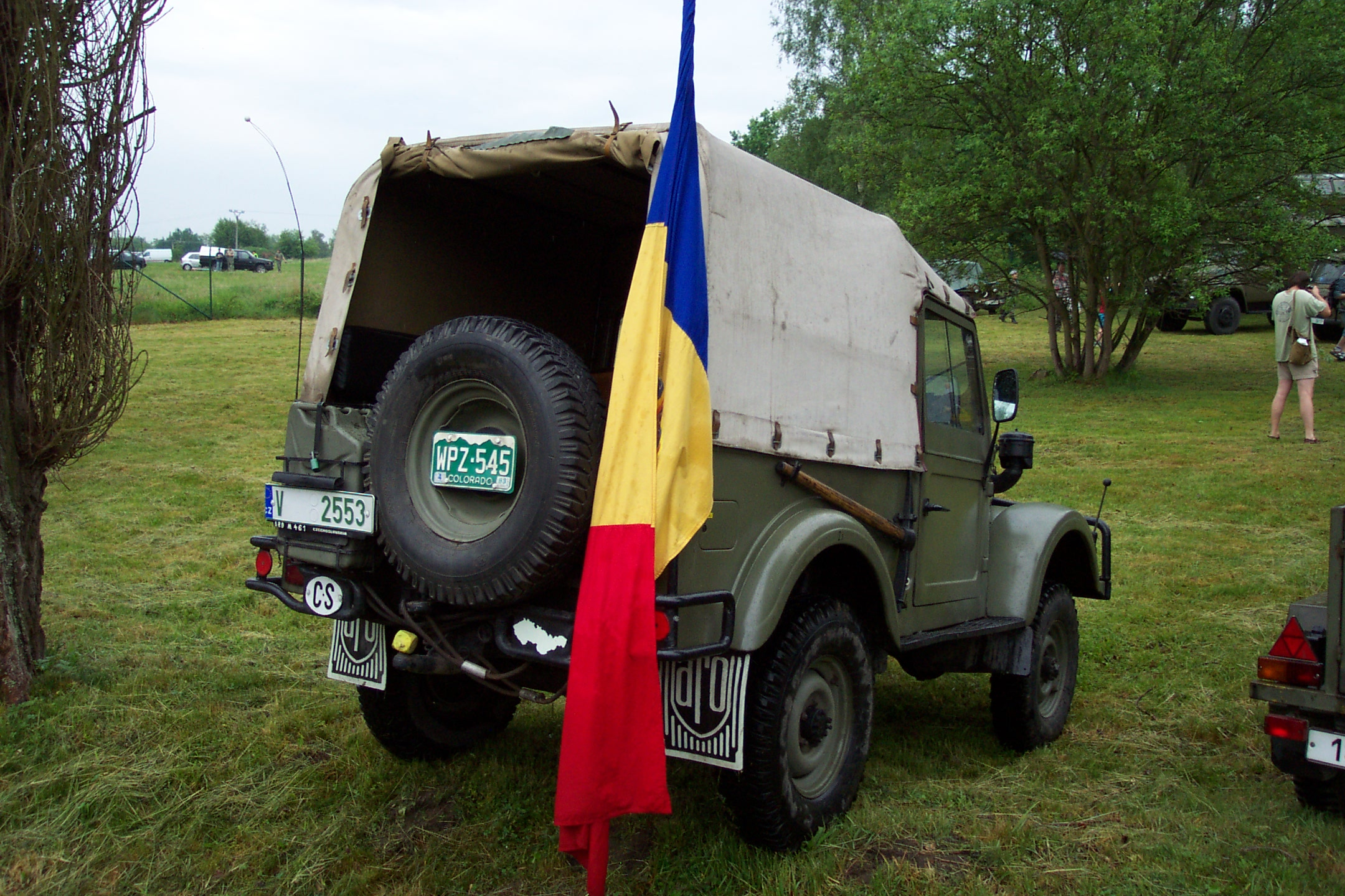 ARO military vehicle of Romanian origin with the flag of socialist Romania